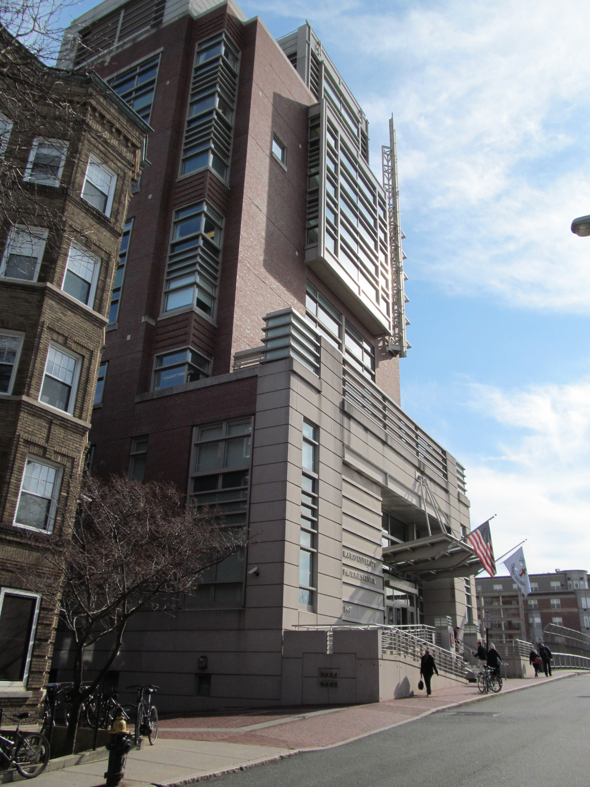 Boston University Photonics Center, Boston Massachusetts